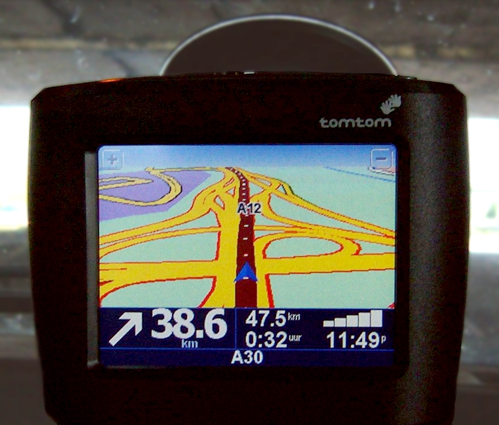 A TomTom.